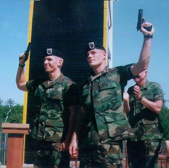 SPC Isaac Gmazel and SSG Jeff Struecker of 3rd Battalion, 75th Ranger Regiment upon winning the 1996 Best Ranger Competition at Fort Benning, Georgia.